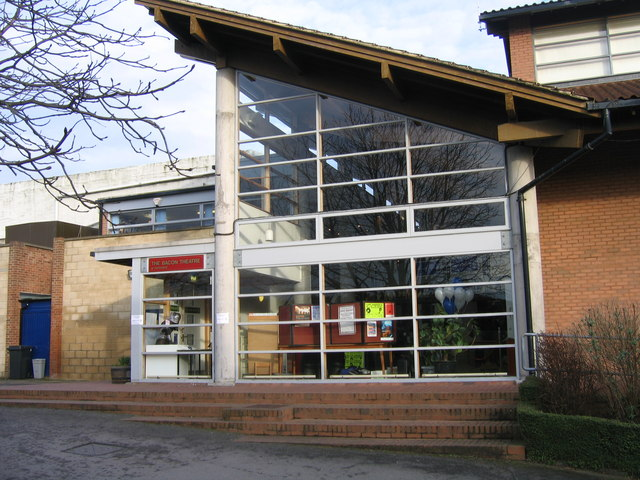 The Bacon Theatre Cheltenham Situated at Shelburne Rd, Cheltenham, Gloucestershire